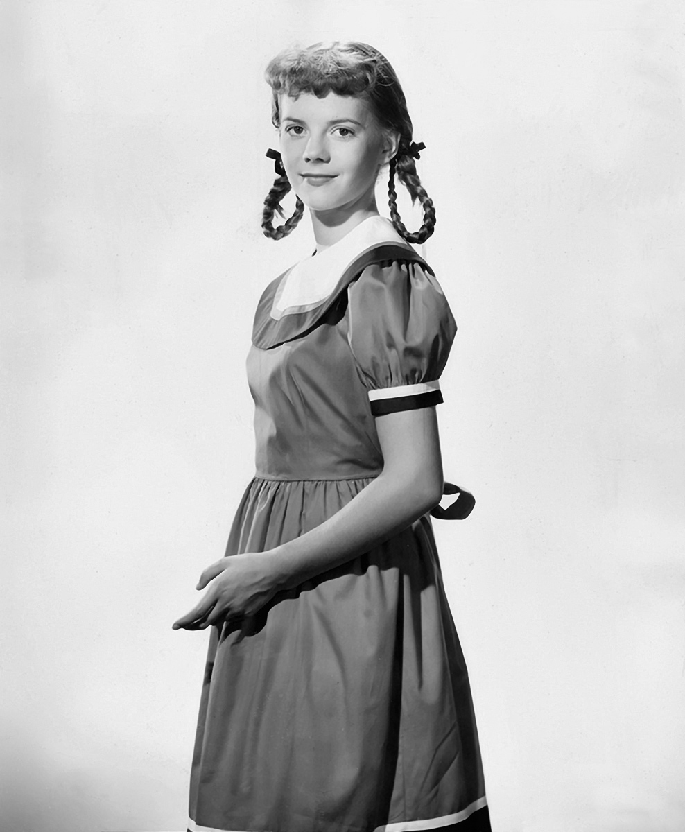 Publicity photograph of Natalie Wood issued by RKO Radio Pictures.